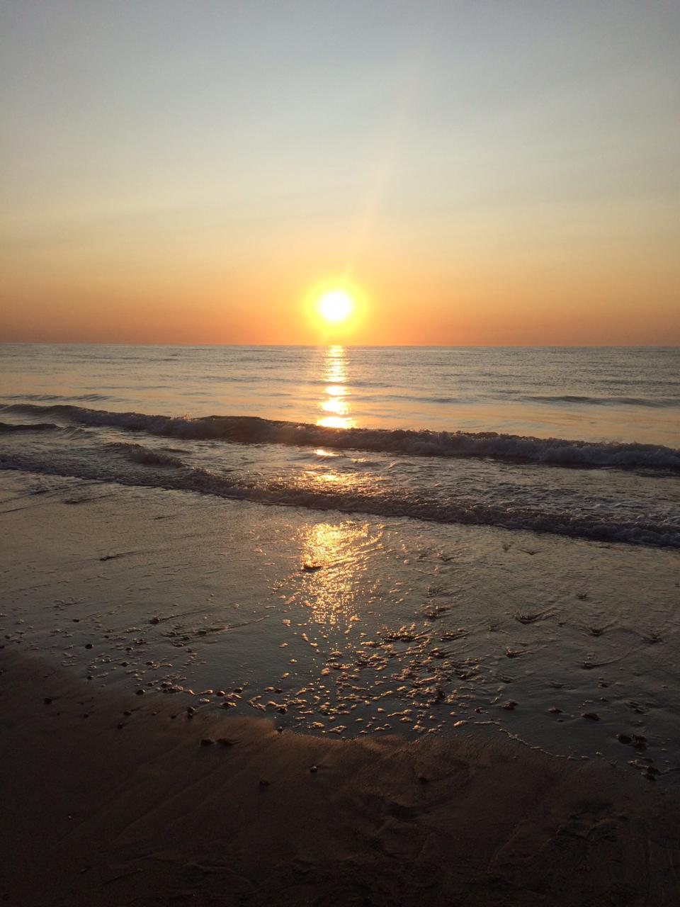 Amanecer en la Ciudad de Las Grutas. Lugar ubicado en la provincia de Rio Negro.